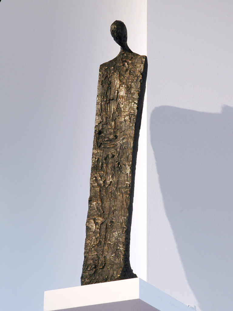 Sculpture by Jan Koblasa, Lost son, bronze (1958)